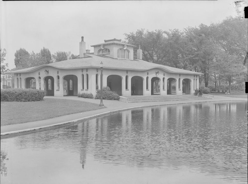 For documentary purposes the original description provided by BAnQ has been retained. Additional descriptive text may be added by Wikimedians with the wiki description = parameter, but please do not modify the other fields.